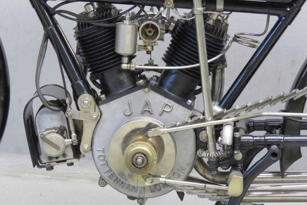 1912 Zenith 770 cc Gradua Gear